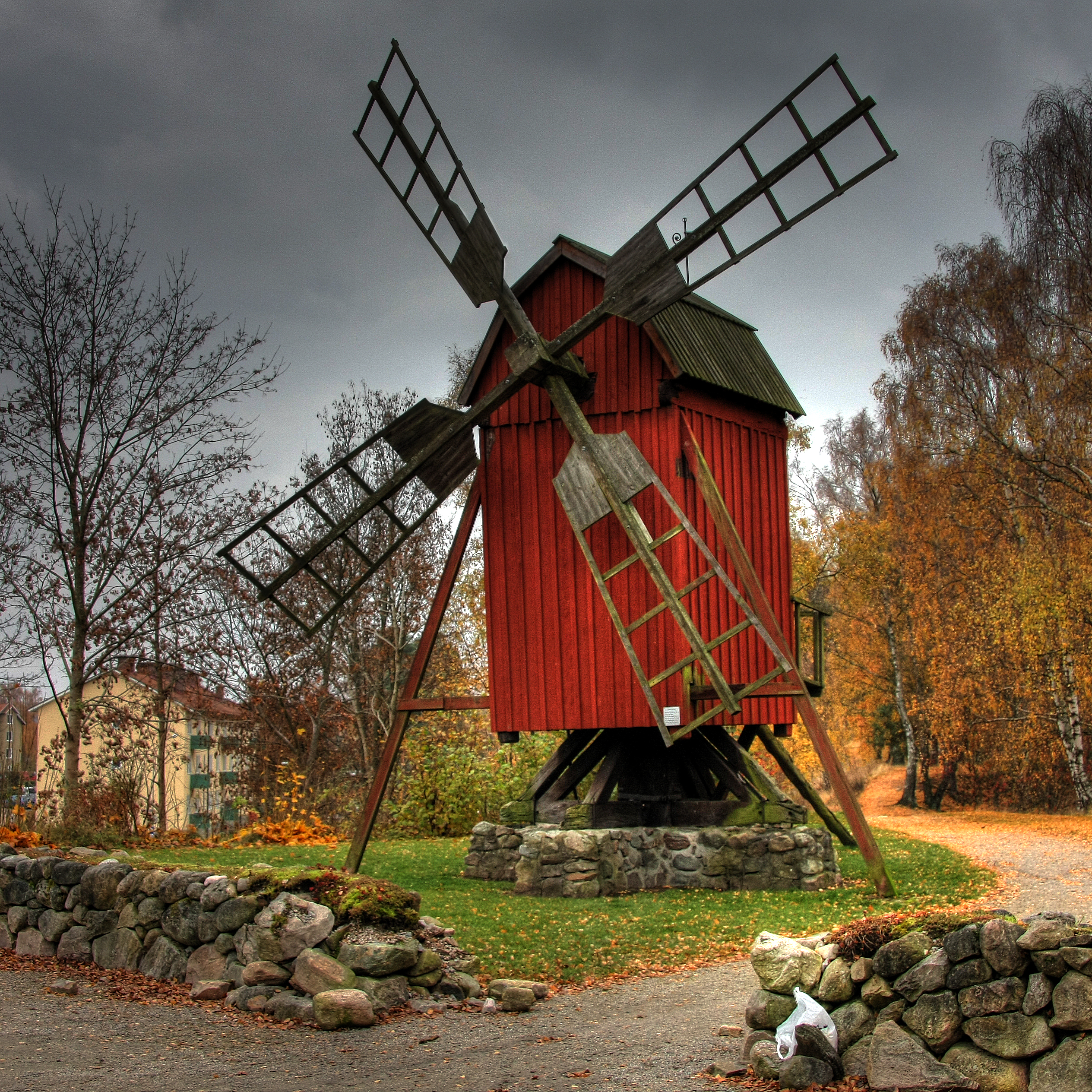 Windmill from Öland restored and placed in a park in Hässleholm, Sweden